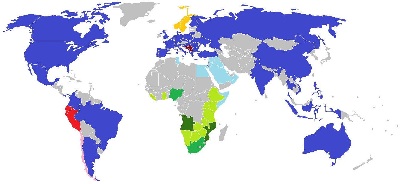 Map showing countries with Big Brother. Legend: Countries with individual franchises. Countries part of Big Brother Africa regional franchise. Countries part of Big Brother Angola and/or Big Brother Angola e Moçambique, andBig Brother Africa regional franchise. Countries with individual franchises and also part of Big Brother Africa regional franchise. Countries part of Big Brother: The Boss regional franchise of the Middle East. Countries part of Gran Hermano del Pacífico regional franchise of the Pacific countries of South America. Countries with individual franchises and also part of Gran Hermano del Pacífico regional franchise of the Pacific countries of South America. Countries part of Veliki brat regional franchise of the Balkan region. Countries part of Big Brother regional franchise of Scandinavia.